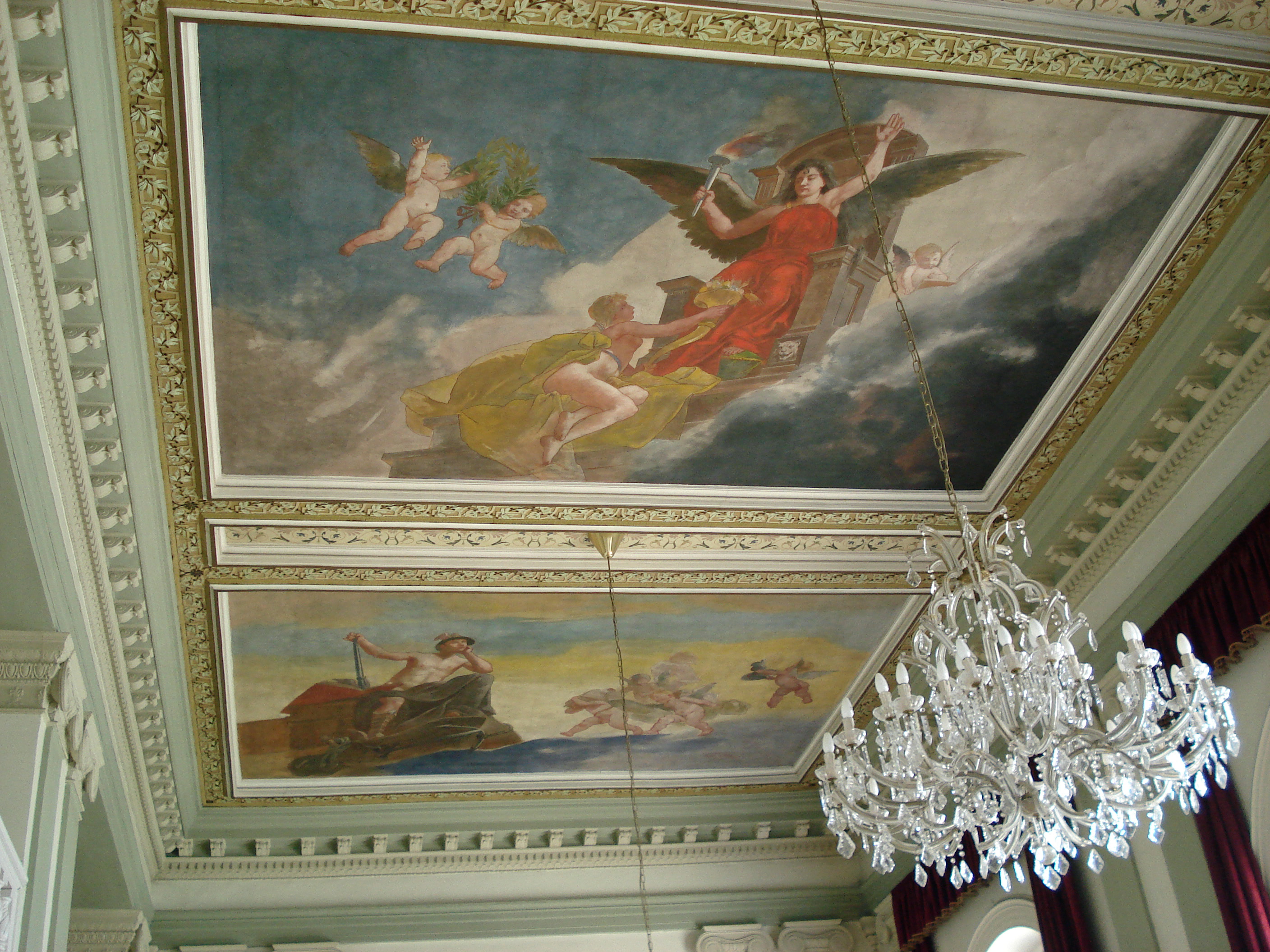 Fresco. Painter: Lázár Nagy. Hungarian Academy of Sciences Regional Committee in Miskolc, Hungary